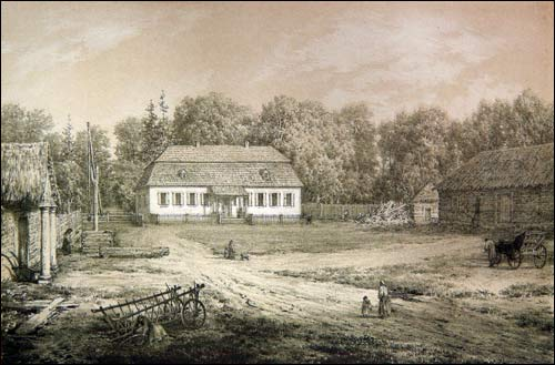 Hiejstuny, Napaleon Orda